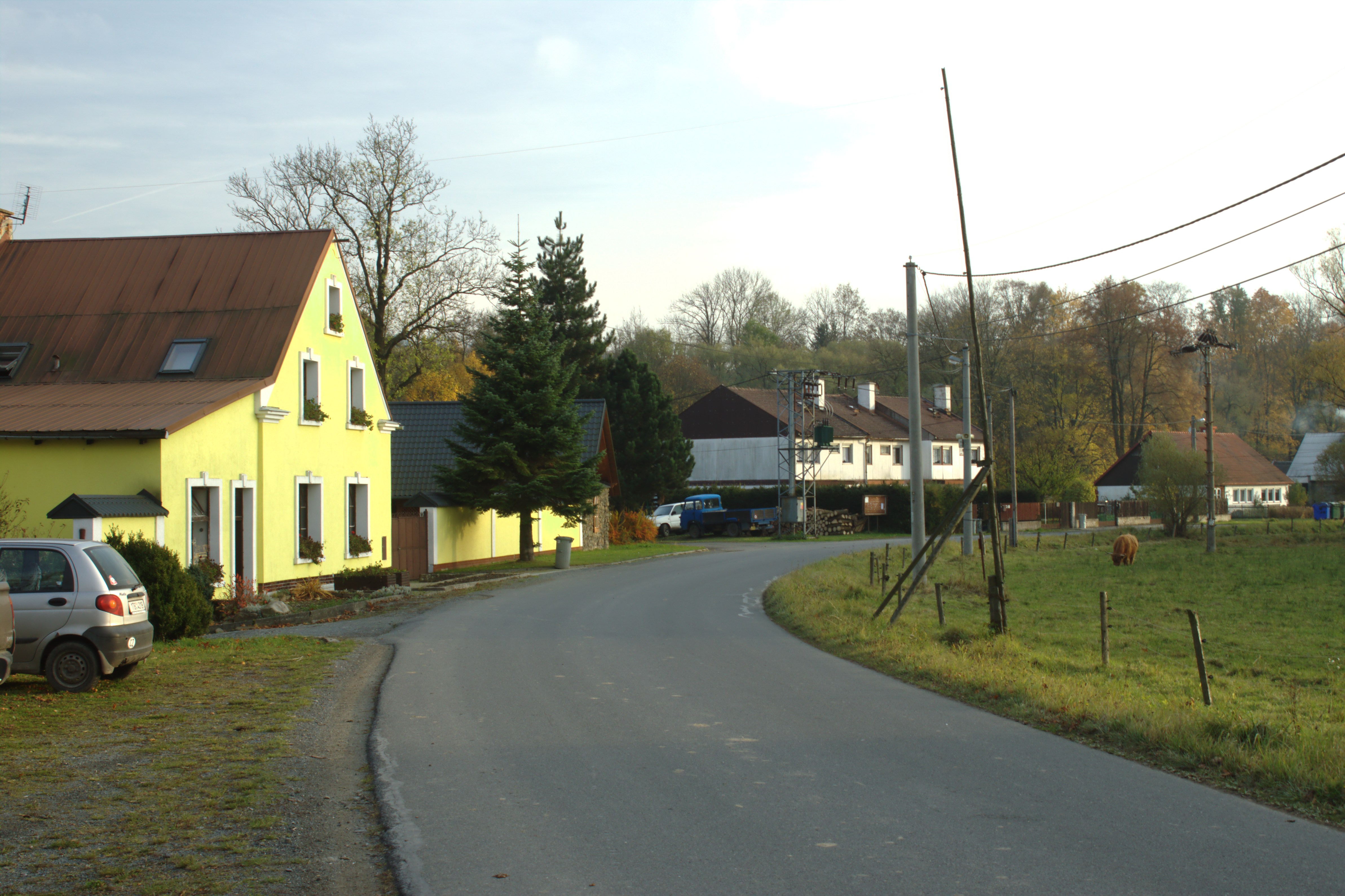 Buildings in the village of Sedm Dvorů near Moravský Beroun, CZ